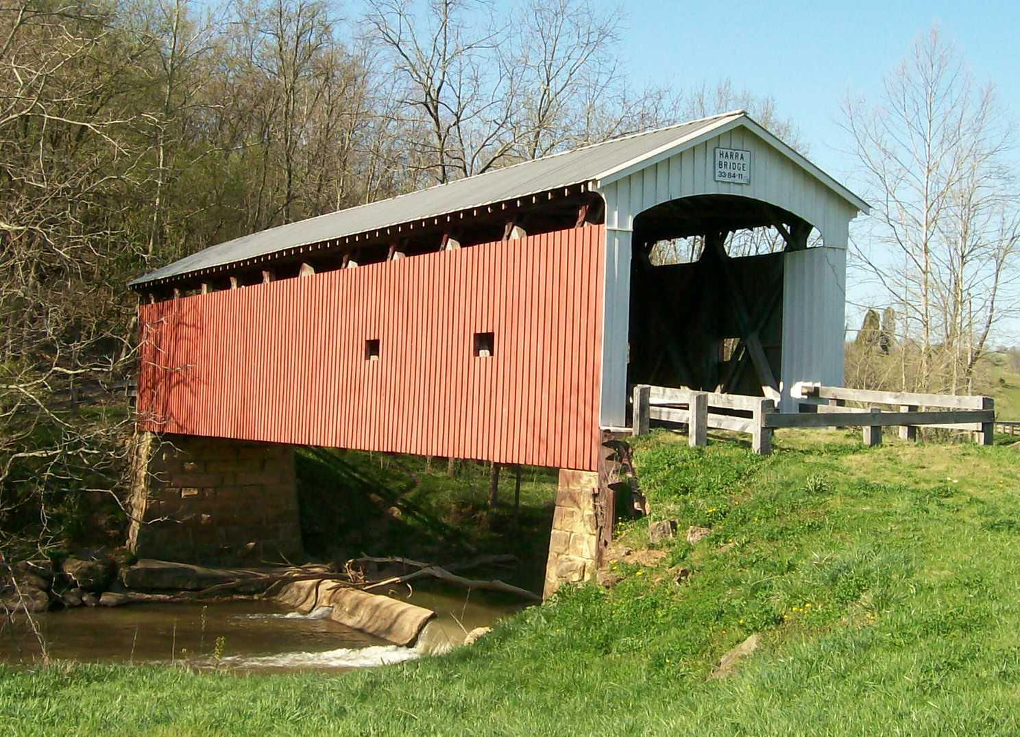 The Harra Covered Bridge just off of Camp Hervida Road northwest of Watertown, Ohio in Washington County. The bridge is photographed looking northeast from Camp Hervida Road. On the NRHP for Washington County, Ohio. Taken 04-10-2010.